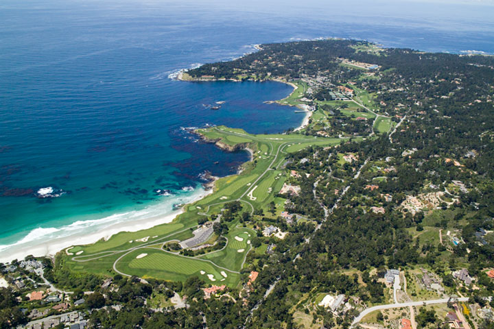 Aerial view of Pebble Beach, California, USA.